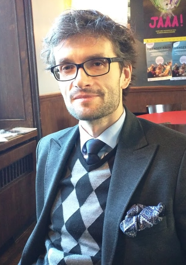 Przemysław Kupidura, professor of cartography